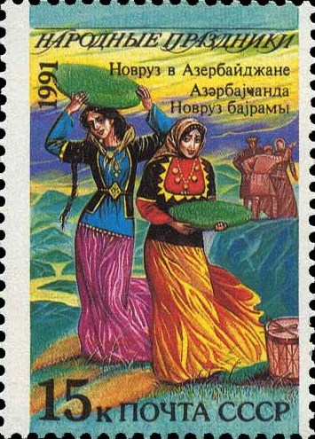 A USSR stamp